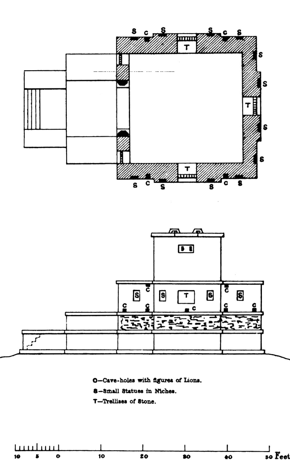 A square plan, two storey stone temple near Ganj village, Madhya Pradesh, at the entrance of forested Vindhya mountain valleys. Dated to the 5th or 6th century, it is one of the oldest surviving north Indian Nagara style architecture. The temple has intricate carvings of Shaivism, Vaishnavism and Shaktism themes, as well as secular narratives such as kama / amorous couples.